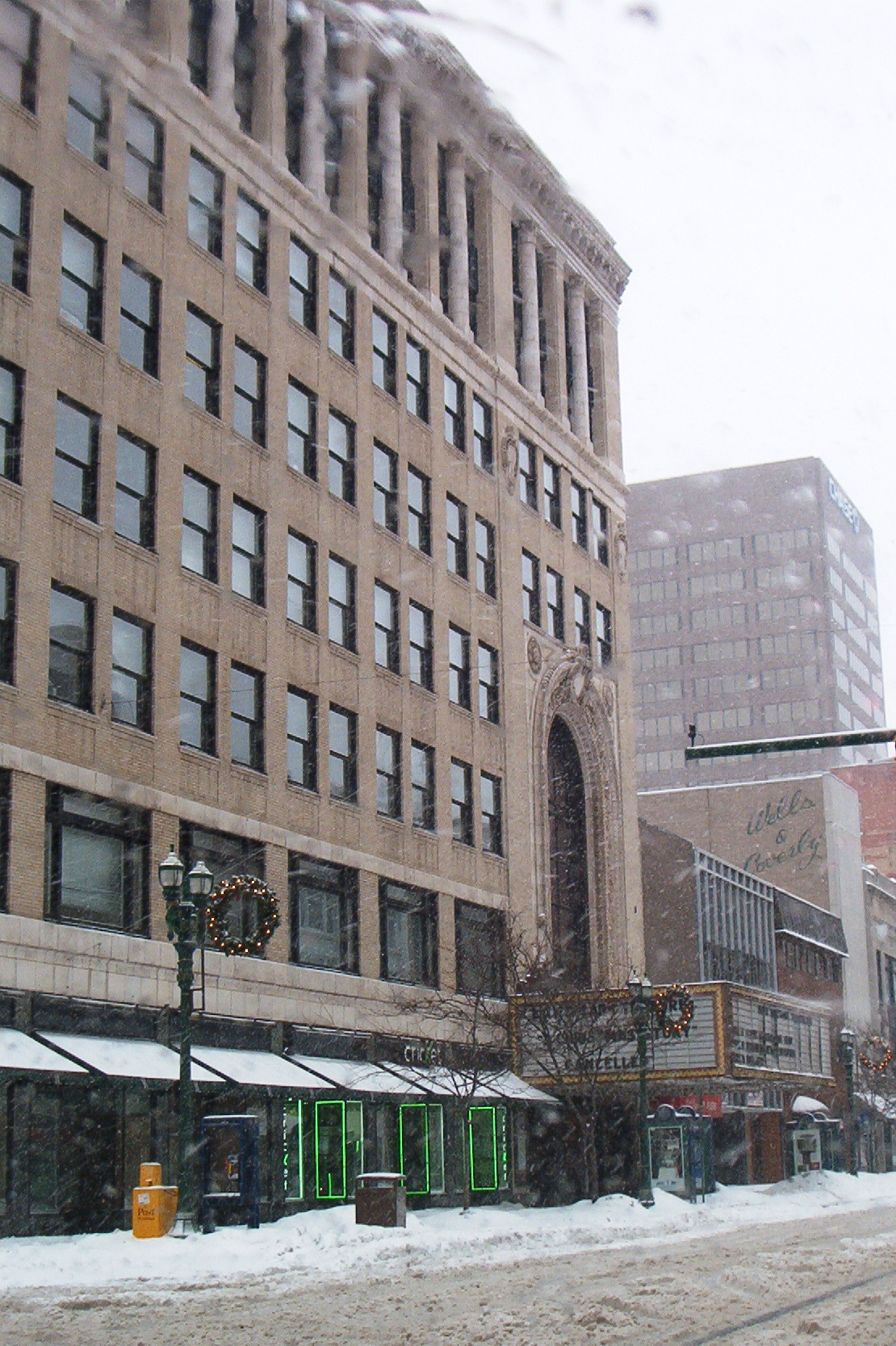 Loew's State Theatre, aka Landmark Theater, Syracuse, New York. Shows exterior on a snowy Sunday.